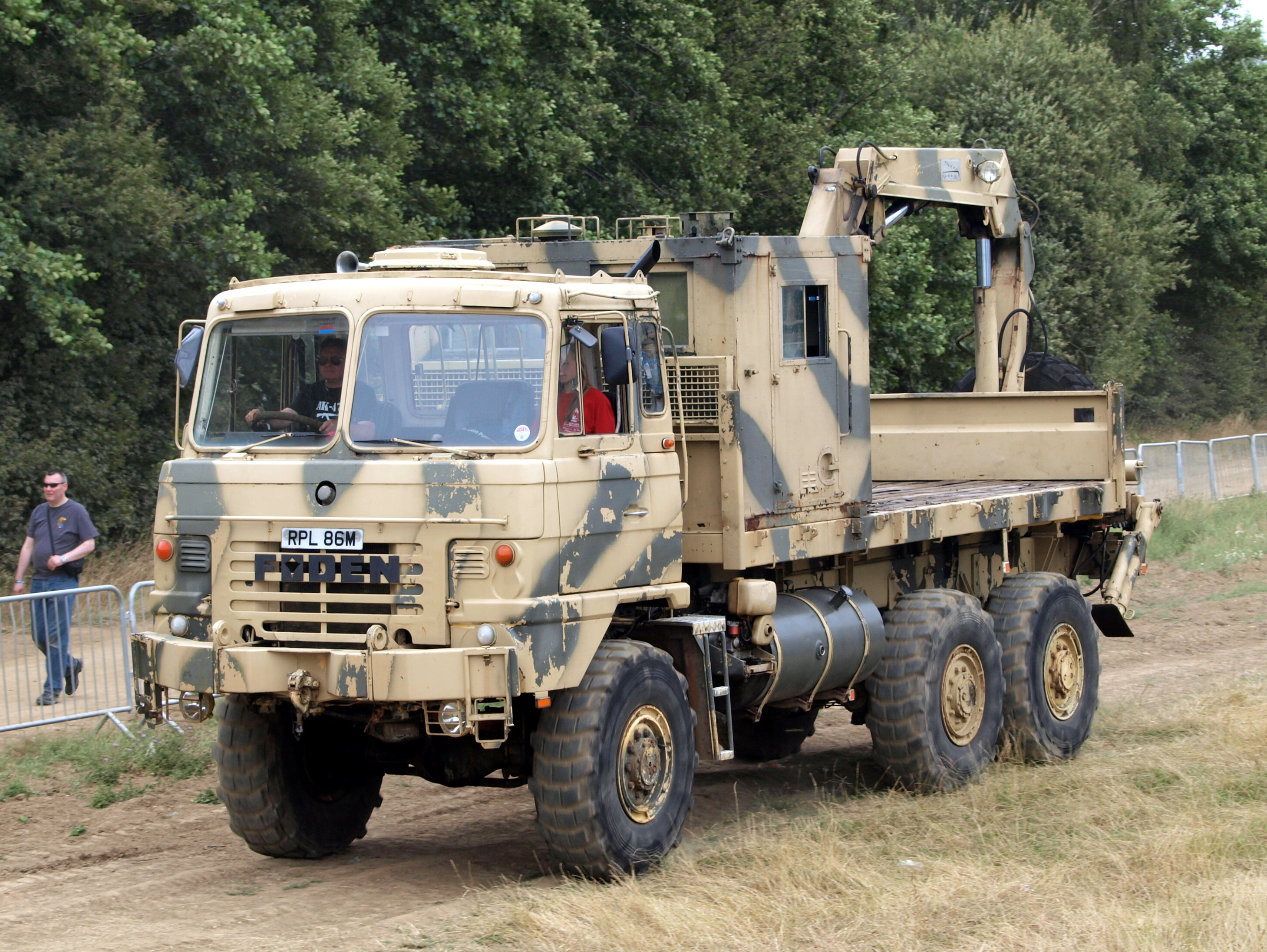 Foden recovery truck